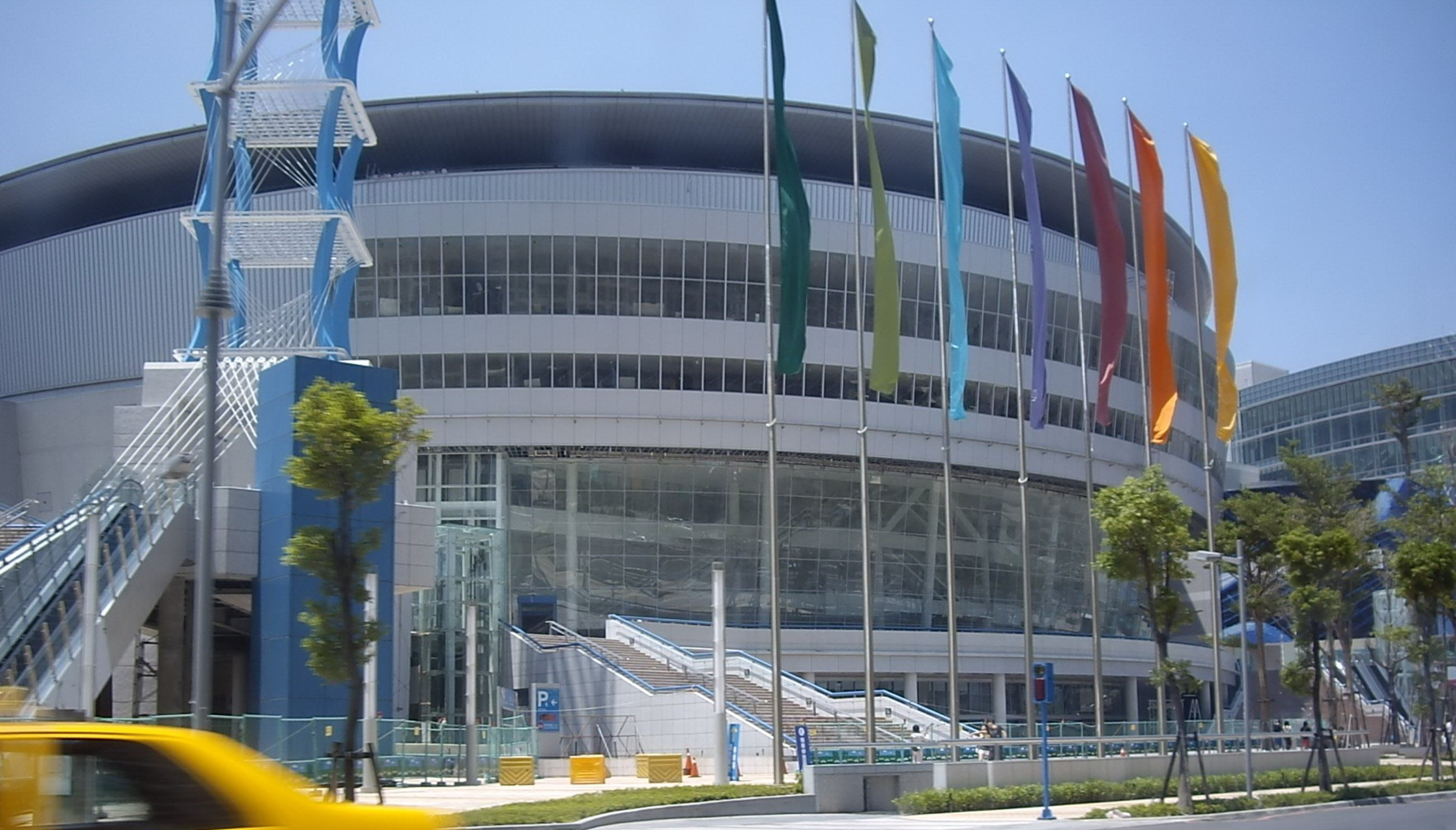 Kaohsiung Arena